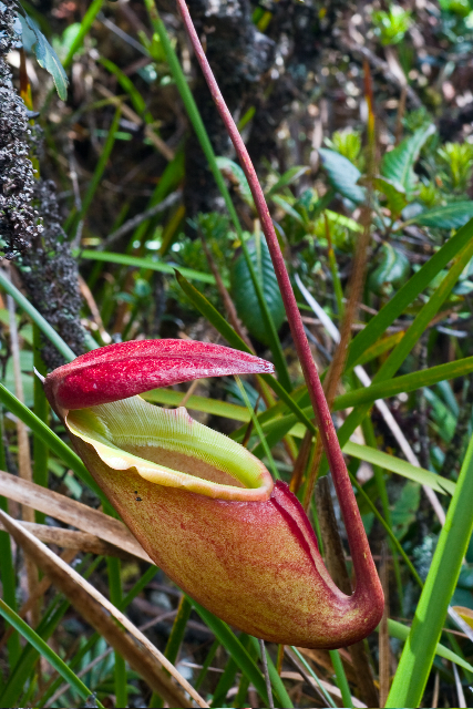 Nepenthes rajah photographed below the summit Mount Tambuyukon, Borneo (Alastair Robinson, May 2007) - lower intermediate pitcher prior to pitcher maturation.